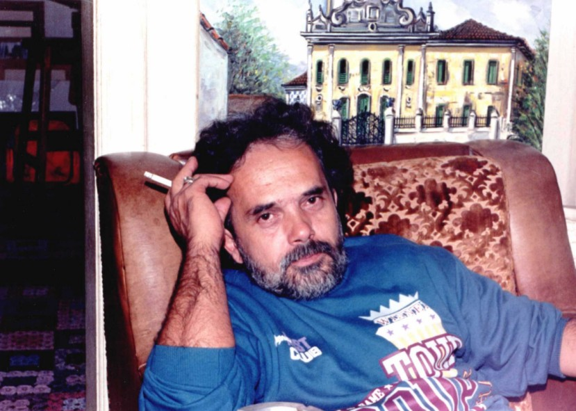 Painter Gilberto Gomes. Photo taken years ago in his home in Rio de Janeiro.